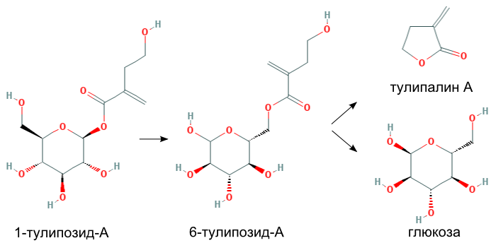 Tuliposide-tulipalin conversion chain